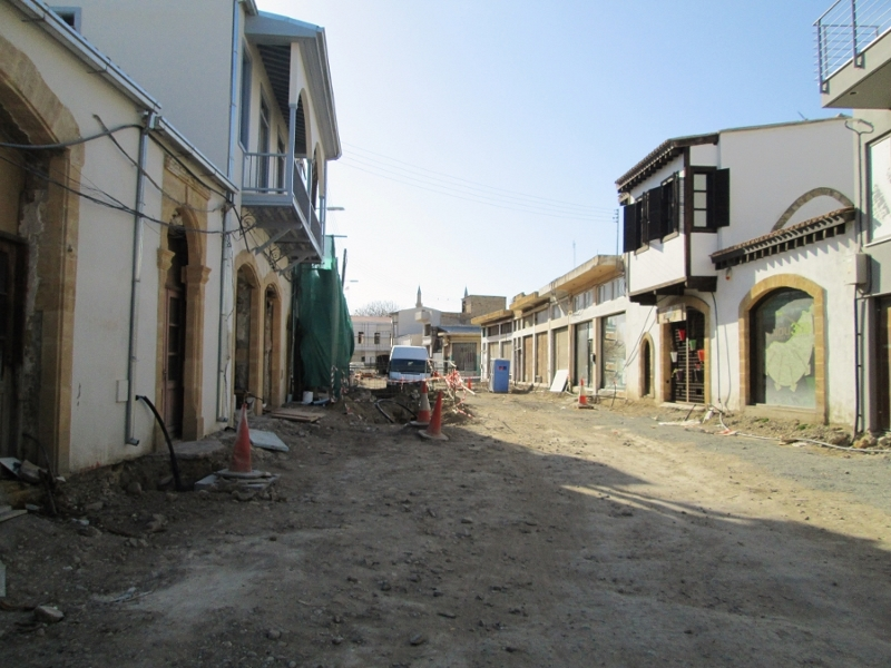 Ermou Street under construction Nicosia 205 Cyprus